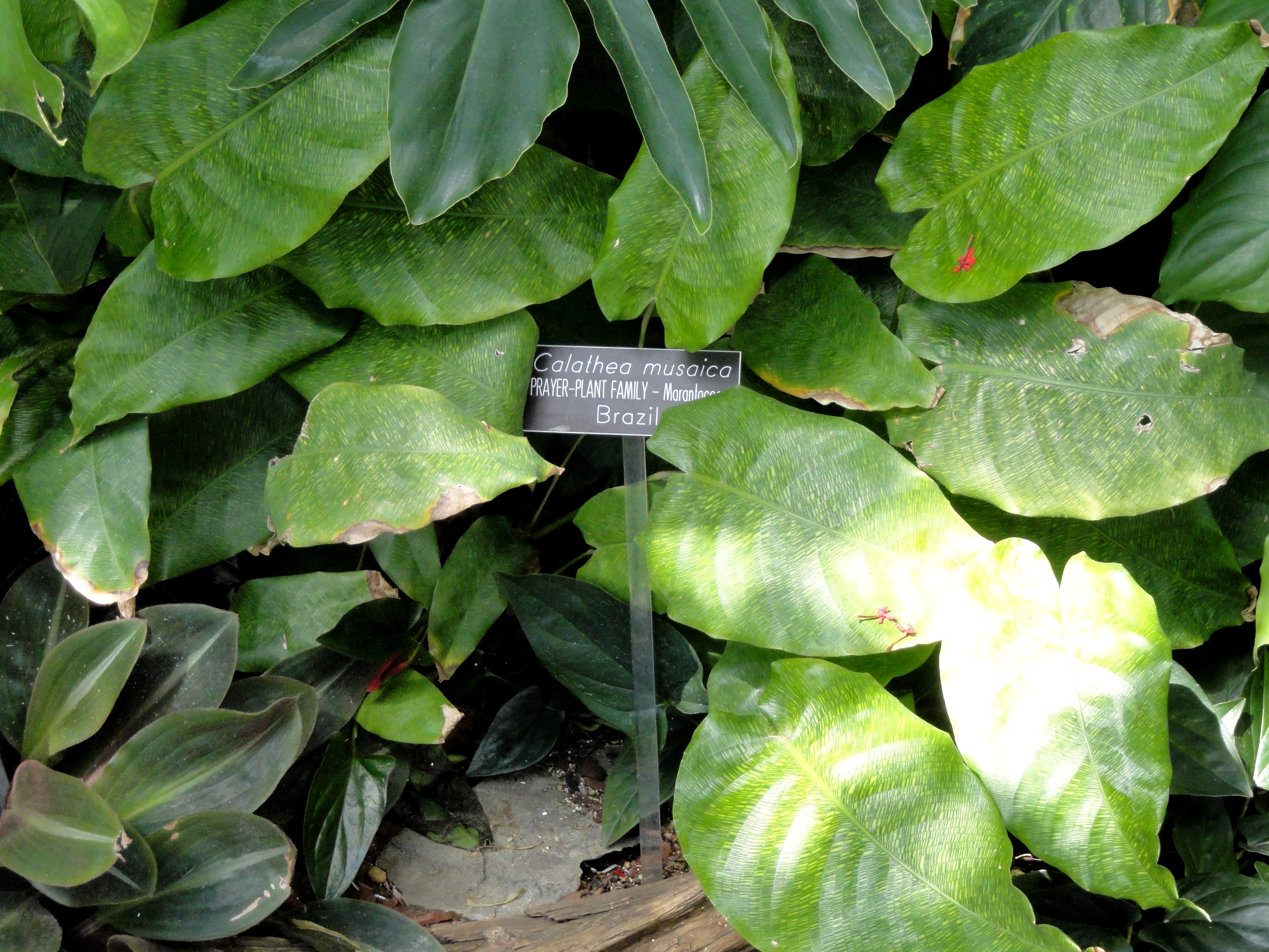 Botanical specimen in the United States Botanic Garden, Washington, DC, USA.